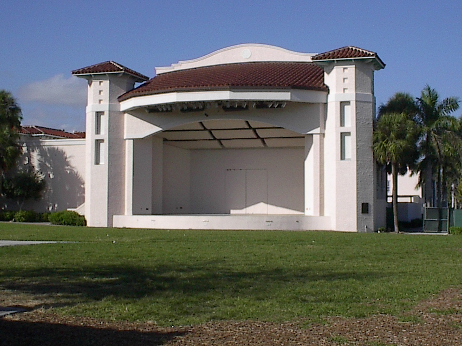 Amphitheater/entertainment pavilion at Old School Square, Delray Beach, Florida Photo taken by me, Donald Albury, on 16 January 2007